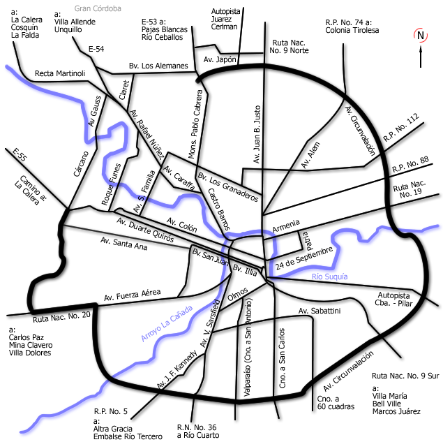 Cordoba's map.